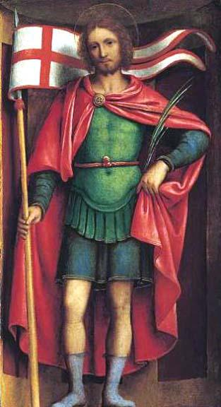 San Alessandro (Saint Alexander of Bergamo)